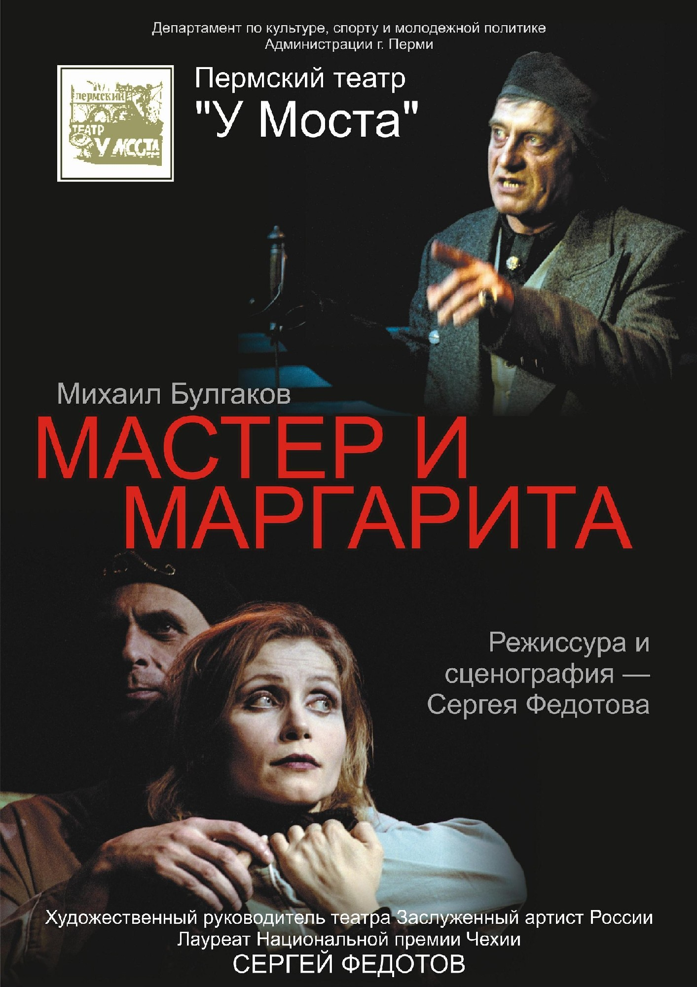 Poster for production Master and Margarita in Theatre Near the Bridge in Perm (2005).